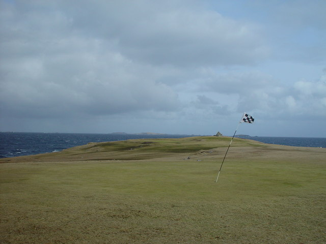 Out Skerries from Whalsay golf, Shetland, Scotland